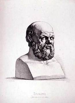 Portrait of Socrates, B. Barloccini